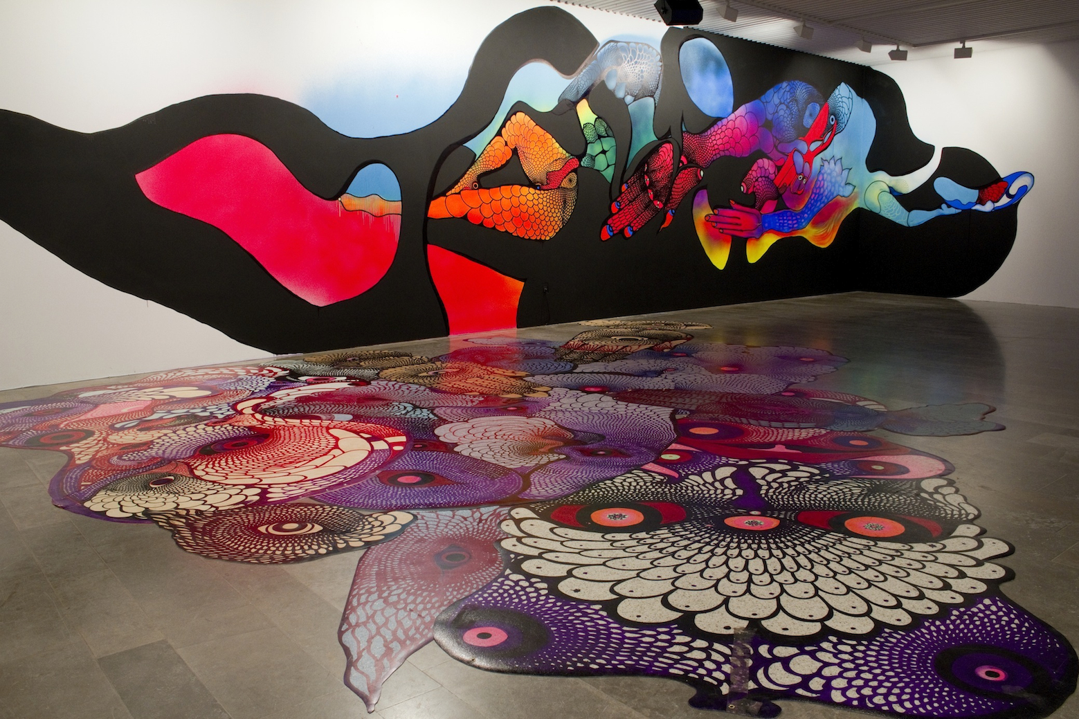 Photo of the exhibition Materialutmattning on Goteborg Art Museum, Sweden, 2011